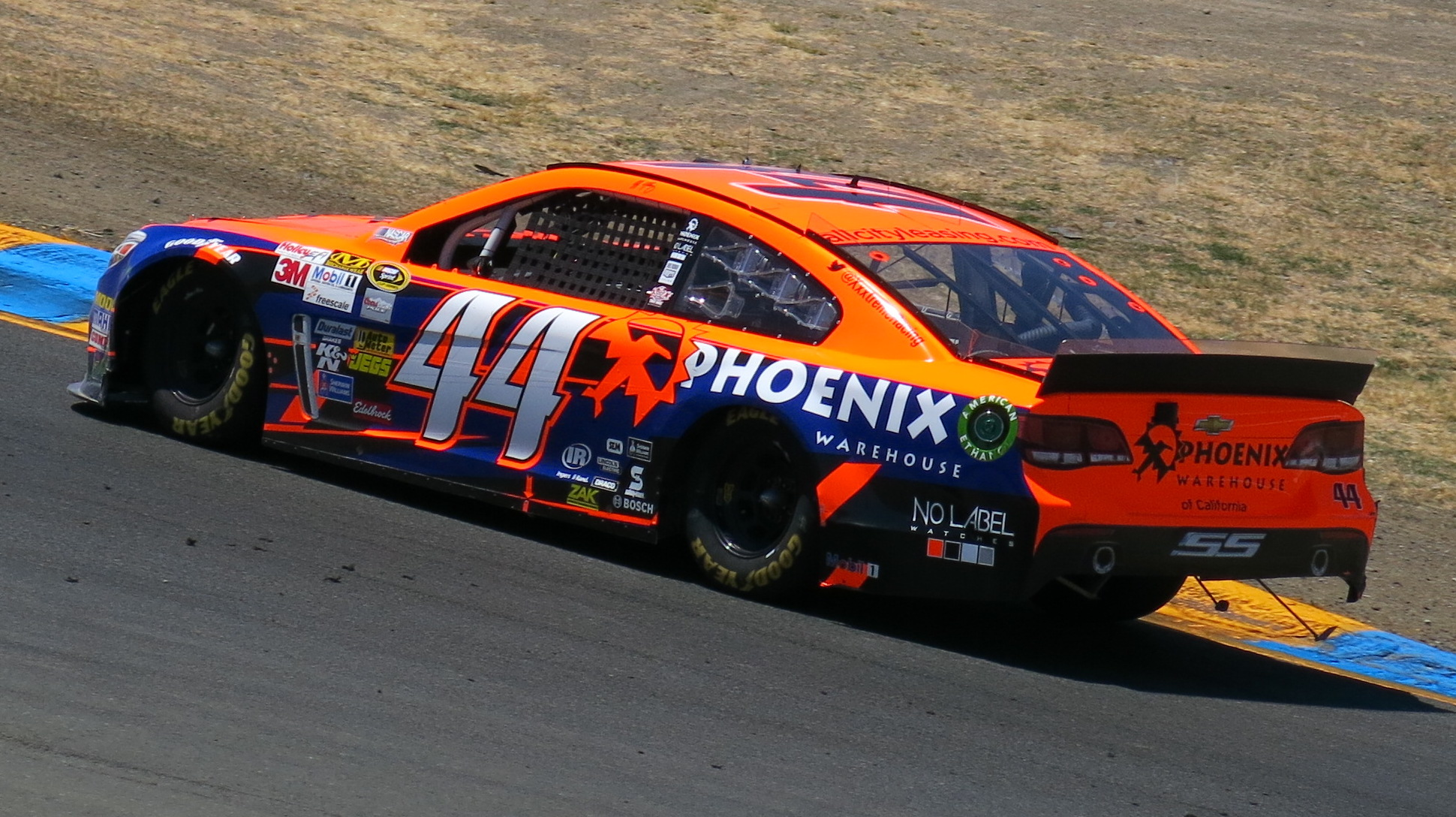 J.J. Yeley's No. 44 Phoenix Warehouse Chevrolet at Sonoma Raceway in 2014